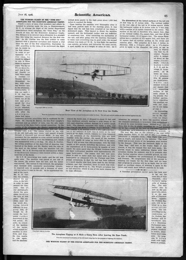 Scan of page 45 of the July 18, 1908 issue of the Scientific American: "The Winning Flight of the "June Bug" Aeroplane for the Scientific American Trophy".